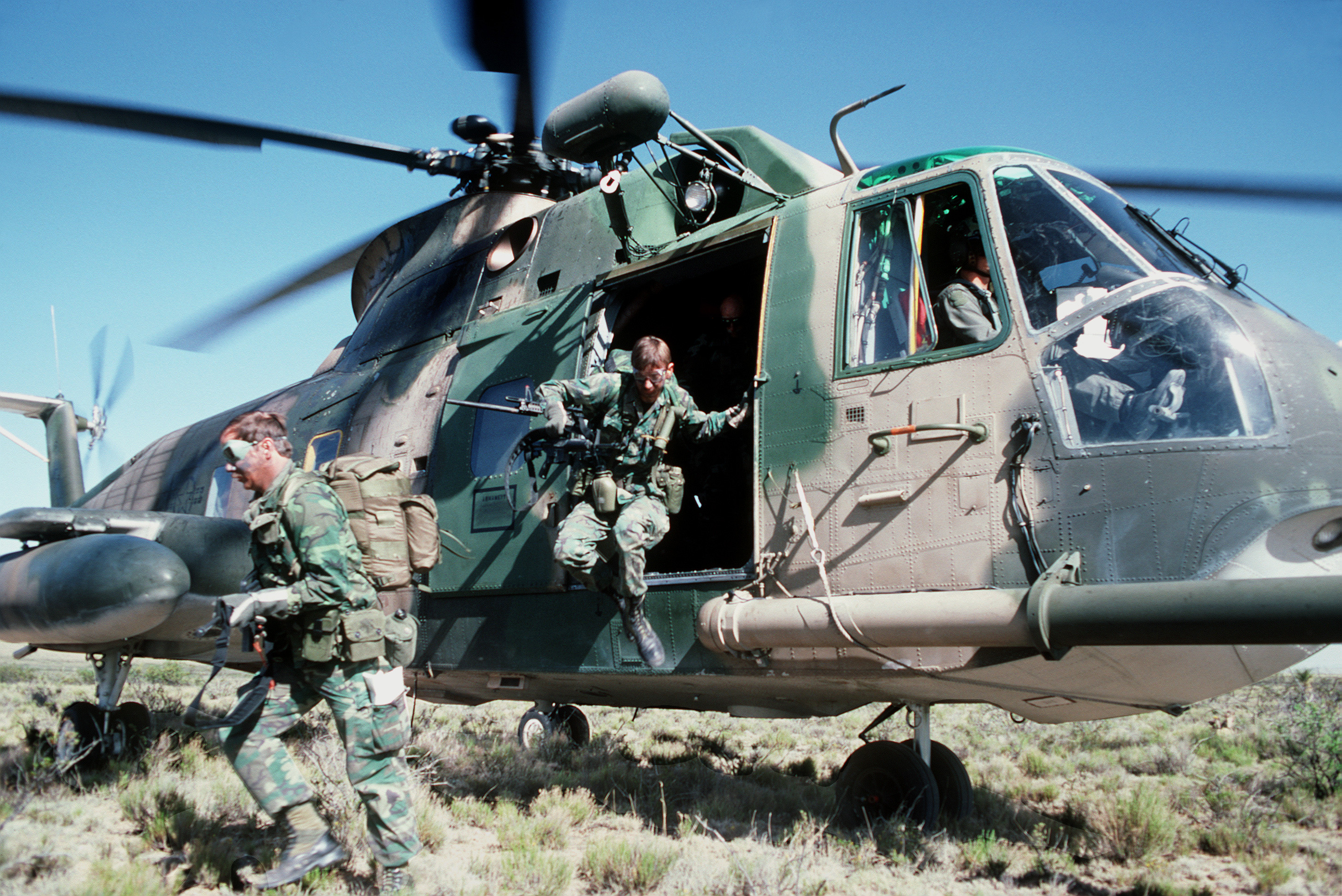 Members of a pararescue team leave an HH-3E Jolly Green Giant helicopter to begin a search and rescue mission during Exercise Patriot Coyote.